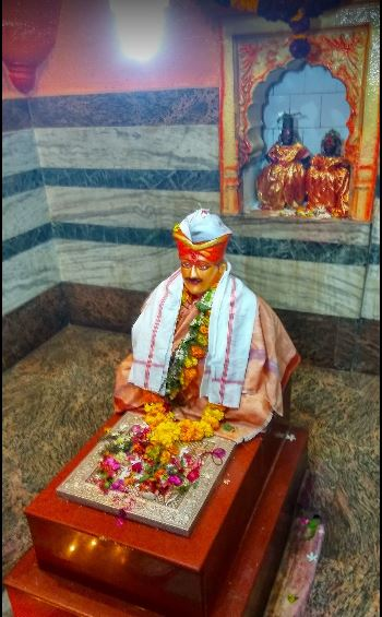 IMAGE OF IDOLOF SONAJI MAHARAJ ,SONALA